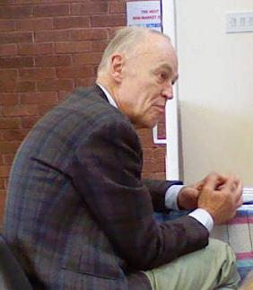 Richard Shepherd photographed by myself at Silver Street Methodist Church in Brownhills on 8 September 2007